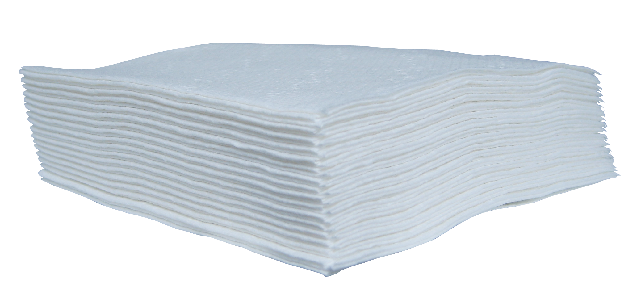 a stack of paper napkins